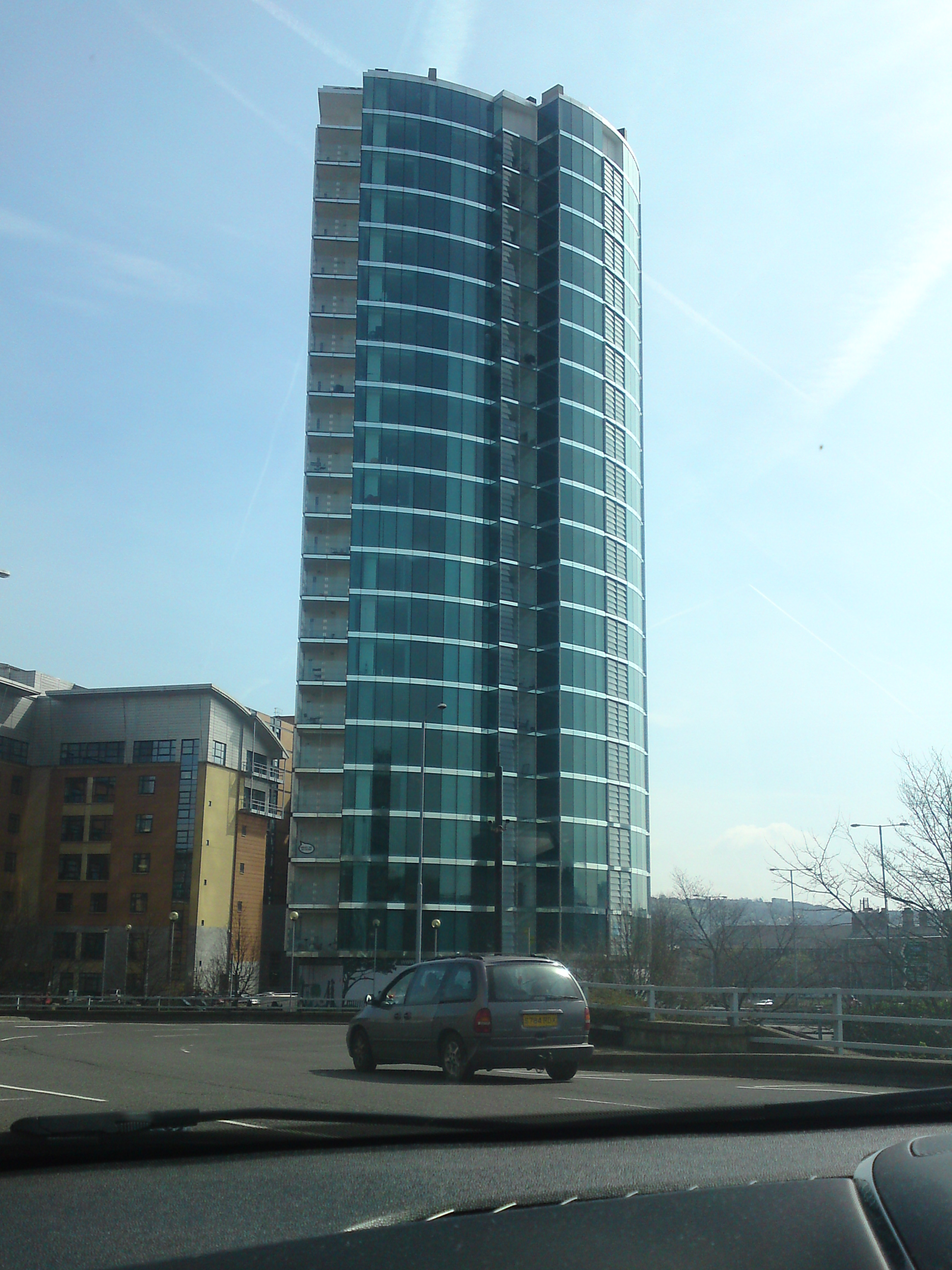 Velocity Tower At Current Height Of 66m In April 2010